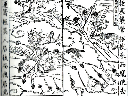 A Qing Dynasty Illustration of Sima Yi retreating from his foe; Kongming.